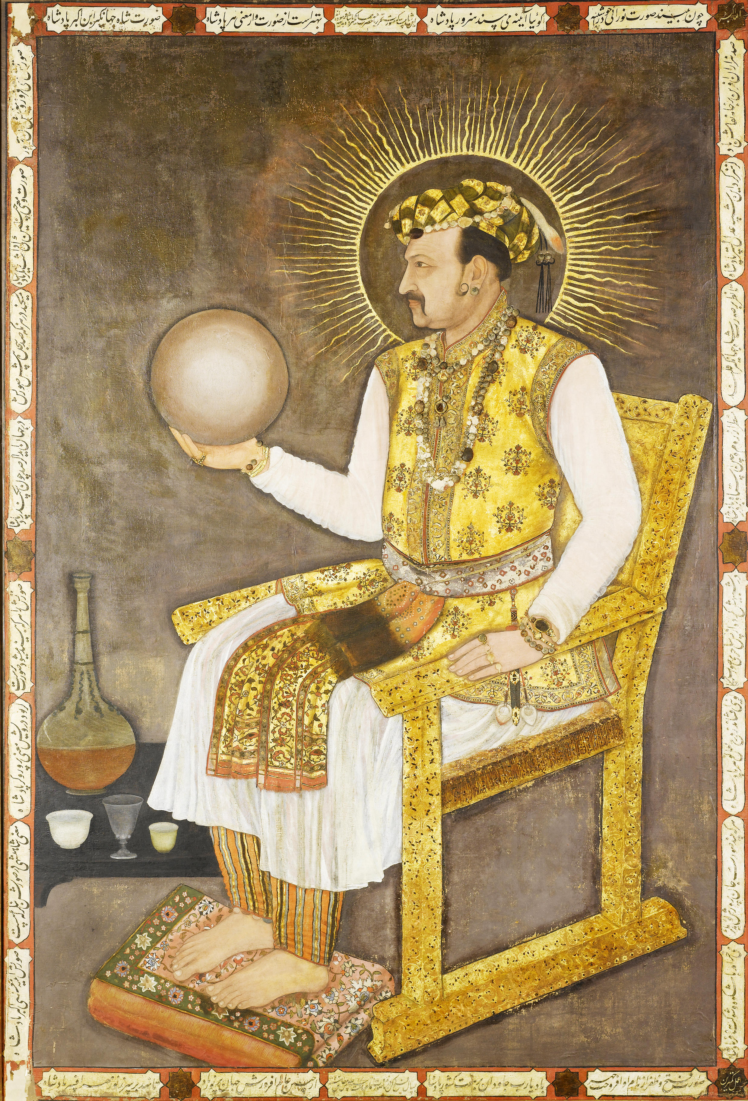 A six-foot high, life-size portrait of Mughal emperor Jahangir, considered to be rarest and most desirable 17th century paintings ever to go for auction.